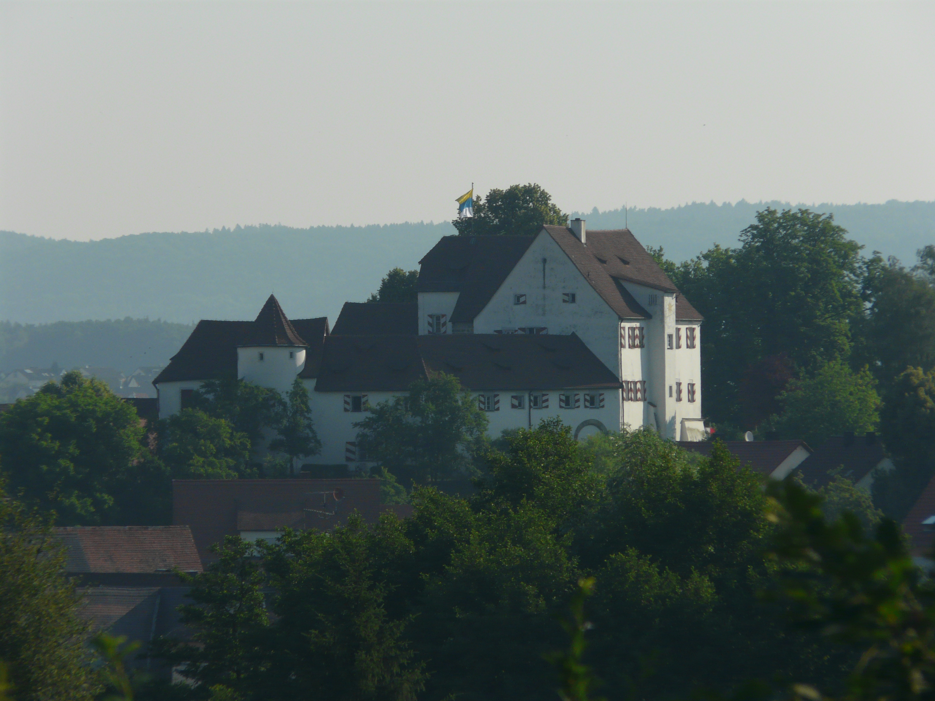 Henfenfeld Castle in Middle Franconia, Bavaria, Germany.